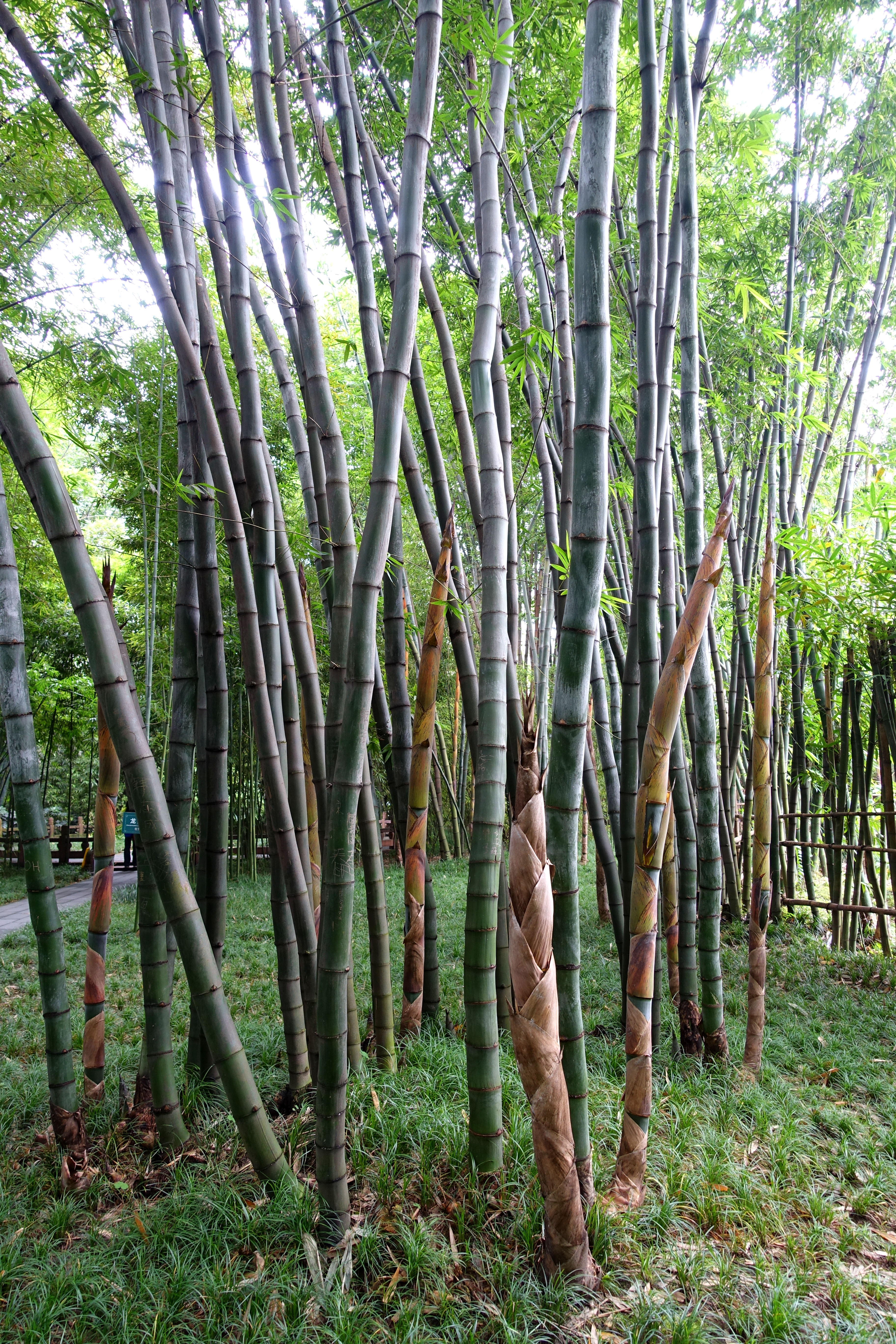 Bambusa rongchengensis (Dendrocalamus rongchengensis) - Wangjianglou Park (望江楼公园) - Chengdu, Sichuan, China.